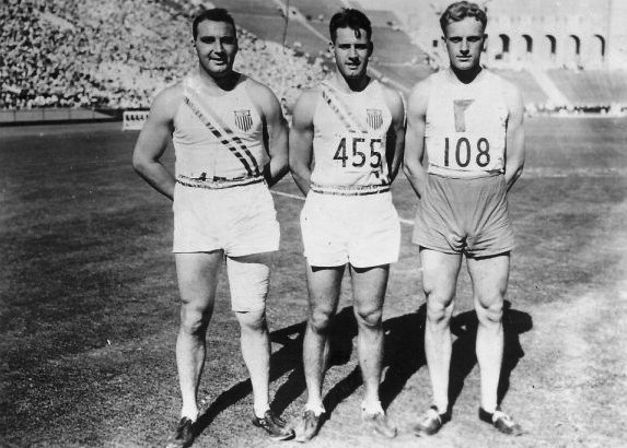 Czechoslovak atlet František Douda on the Olympic Games in 1932 in Los Angeles.